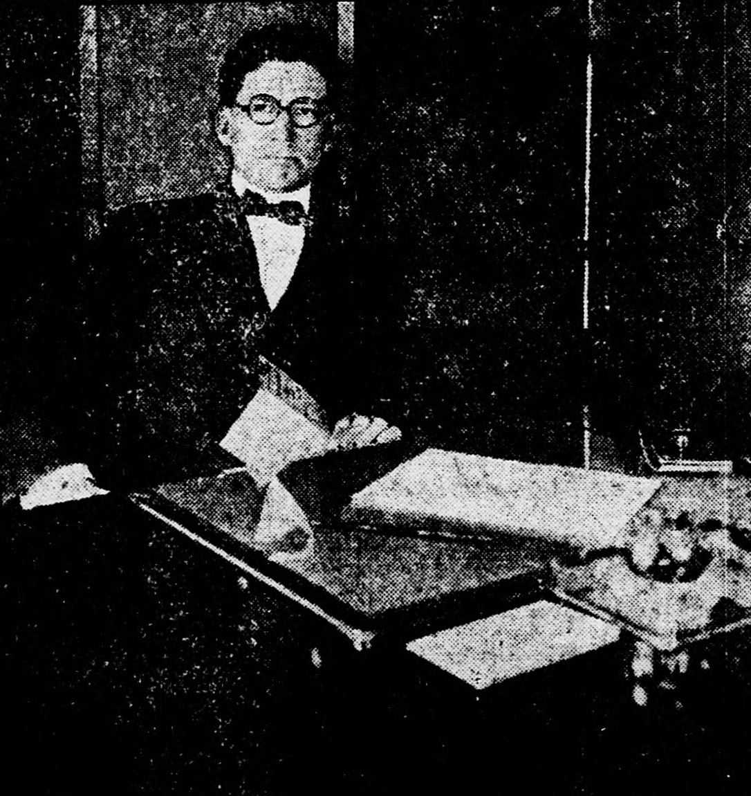 Edward Young Clarke was the Imperial Wizard pro tempore of the Ku Klux Klan from 1915 to 1922. This is a photo from a contemporary newspaper.